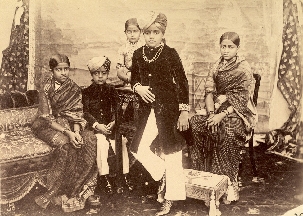 Full length studio portrait of Krishnaraja Wadiyar IV, the Maharaja of Mysore and his brothers and sisters